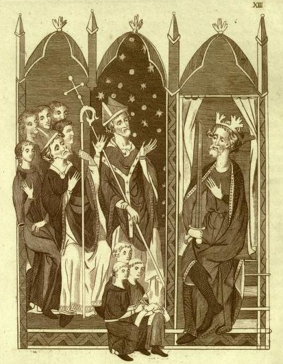 Edward I (engraving no. XIII)